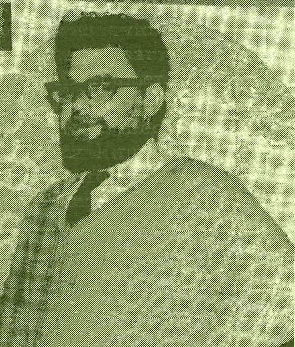 Harryfordmillsobse